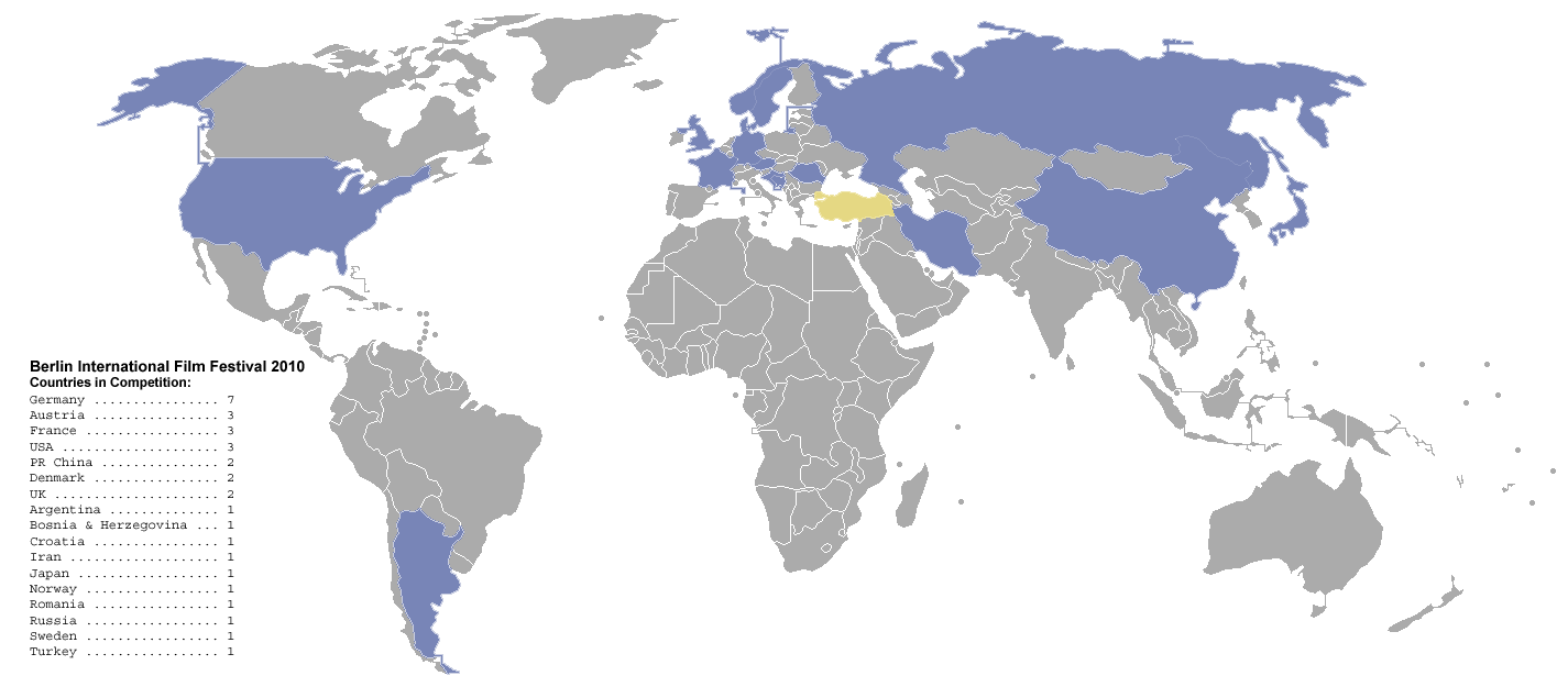 Countries participating in the competition for the Golden Bear 2010 (incl. coproduction countries)